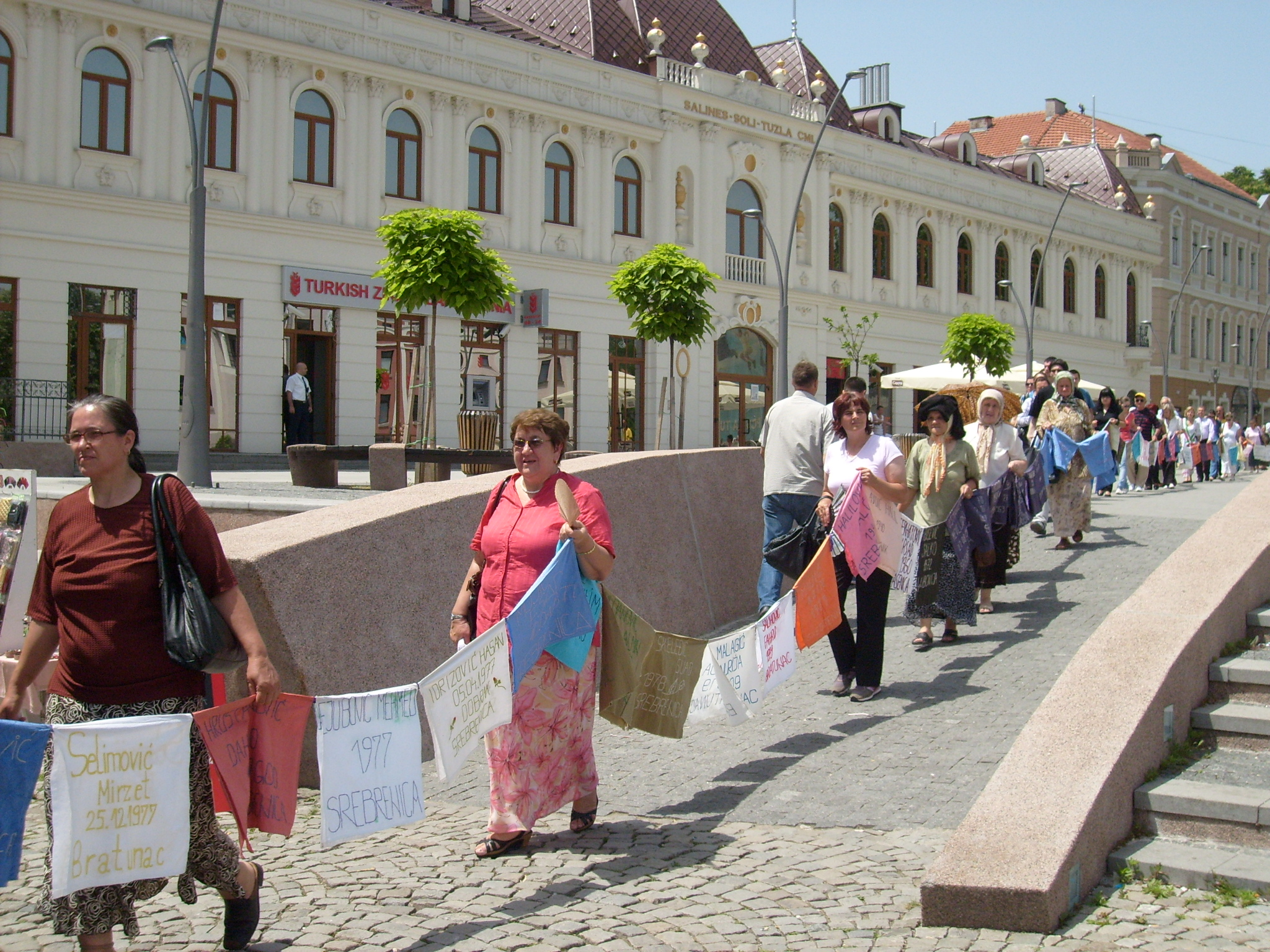 Peaceful protest in Tuzla to demand justice for the Srebrenica massacre